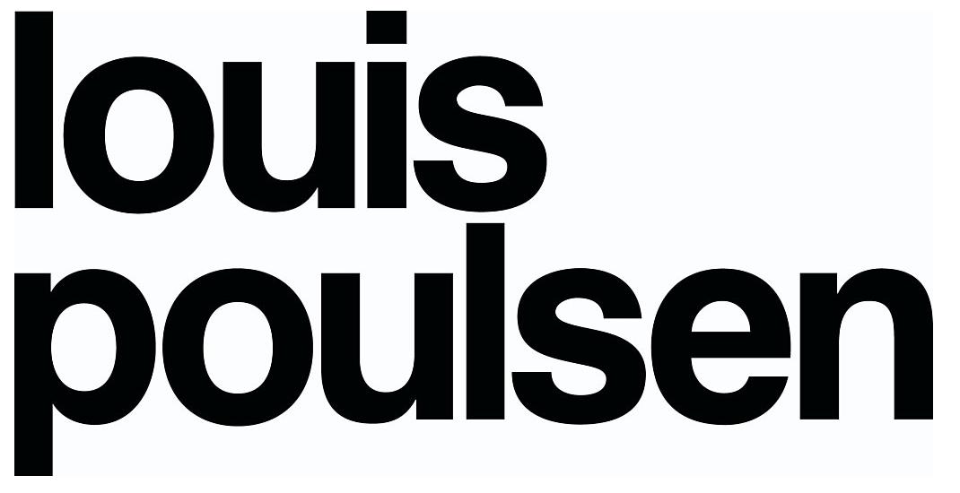 Logo of Louis Poulsen